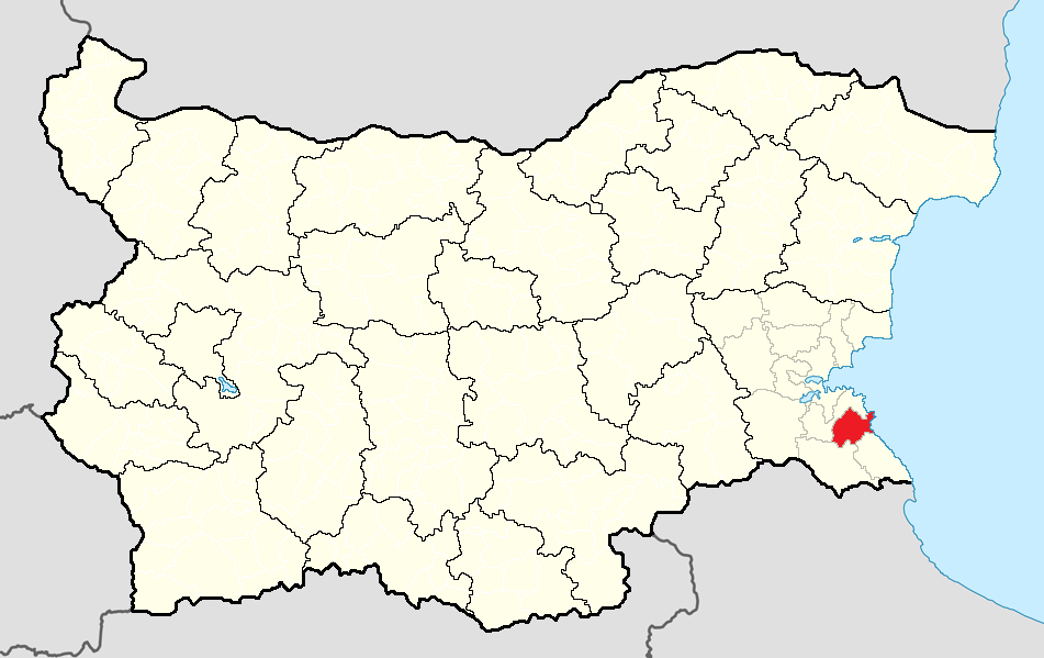 Location map of Primorsko Municipality within Bulgaria and Burgas Province Equirectangular projection, N/S stretching 130 %. Geographic limits of the map: N: 44.4° N S: 41.1° N W: 22.1° E E: 28.9° E